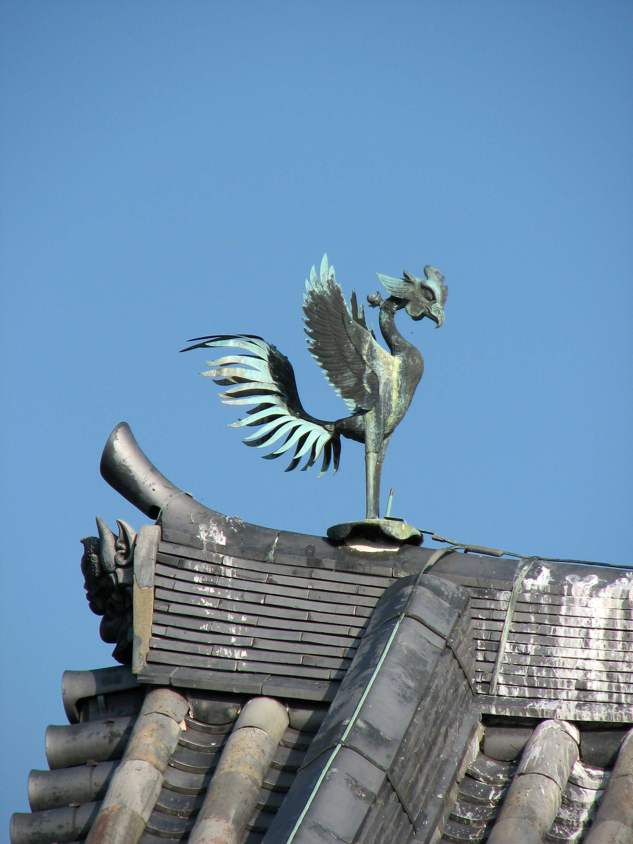 One of the Phoenixes atop the Phoenix Hall at Byodoin.